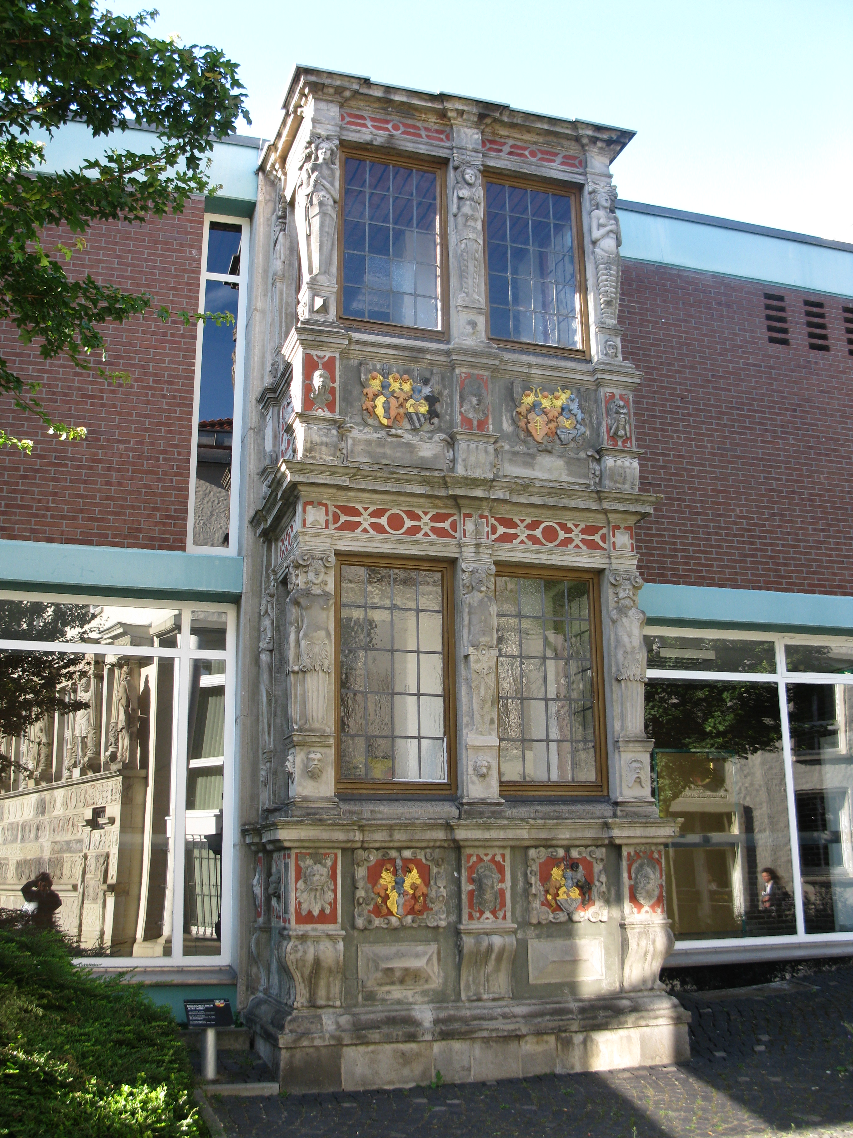 Bay Window, Alter Markt (Old Market), Hildesheim